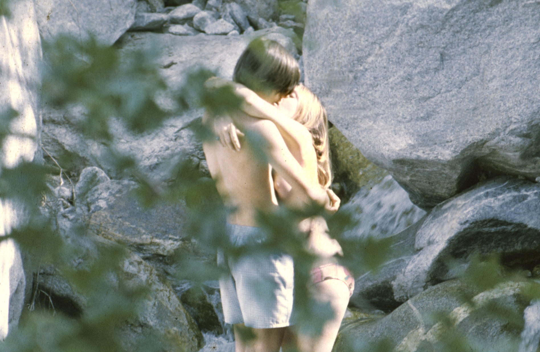 Taken in canyon park in Palm Springs, California during a spring break "hippie" festival. The setting was very public with over 1,000 students in the area, although the photo makes it seem like they're alone. Note to old movie buffs, this photo was taken in the same canyon where Frank Capra's film Lost Horizon was filmed in 1937. This was the location for Shangri-La in the film.